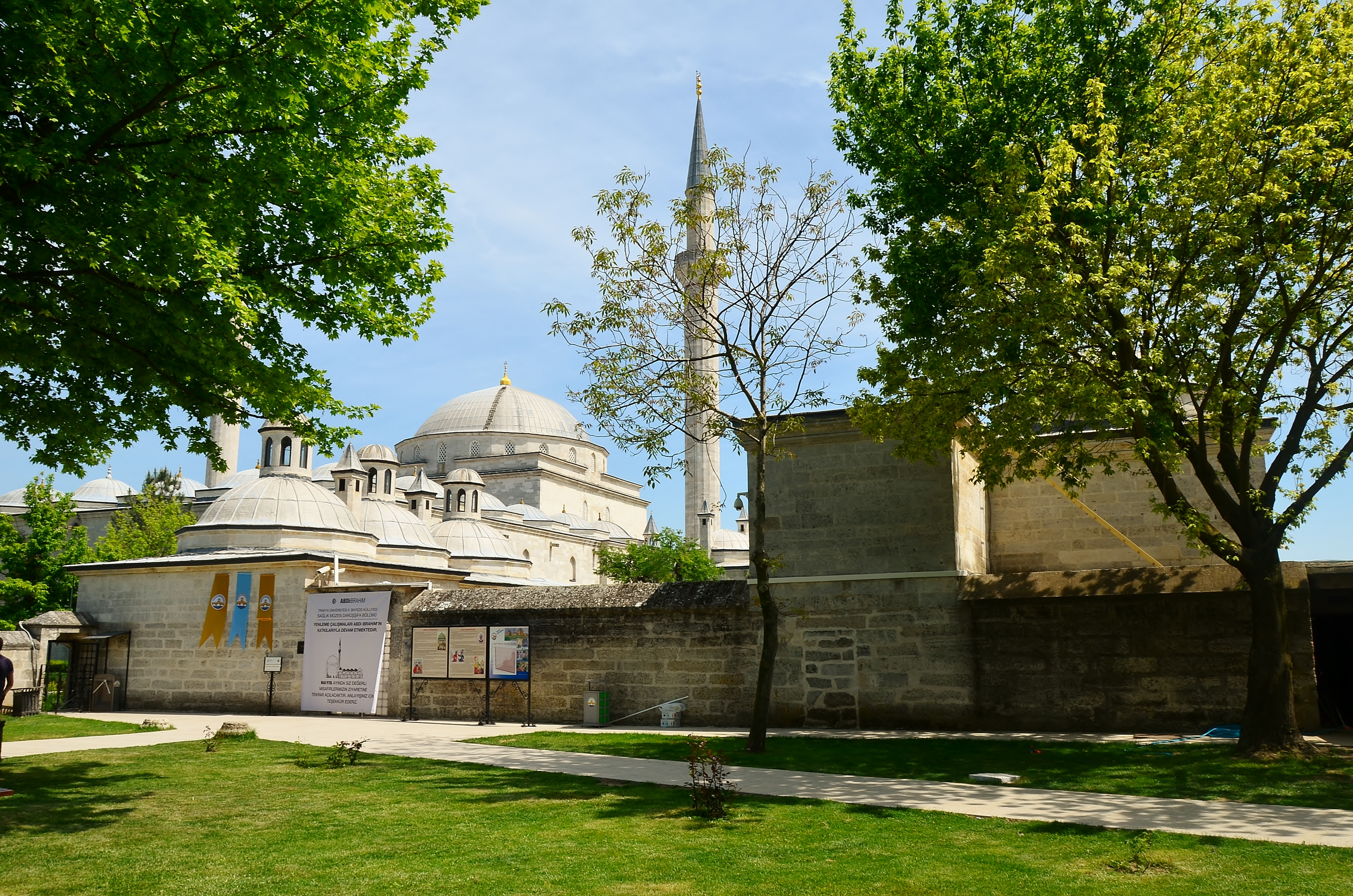 Complex of Sultan Bayezid II Heakth Museum in Edirne, Turkey